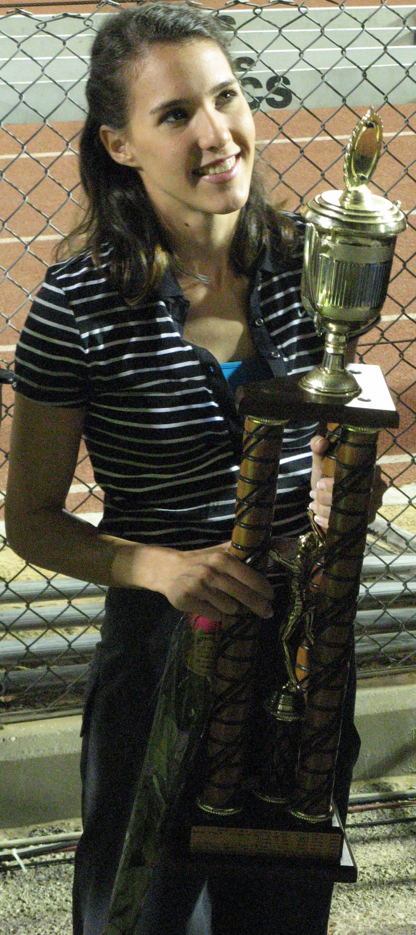 The Israeli high jumper Danielle Frenkel with the trophy of "woman athlete of the year" during the 1st day of the Israel track and field championship 2011